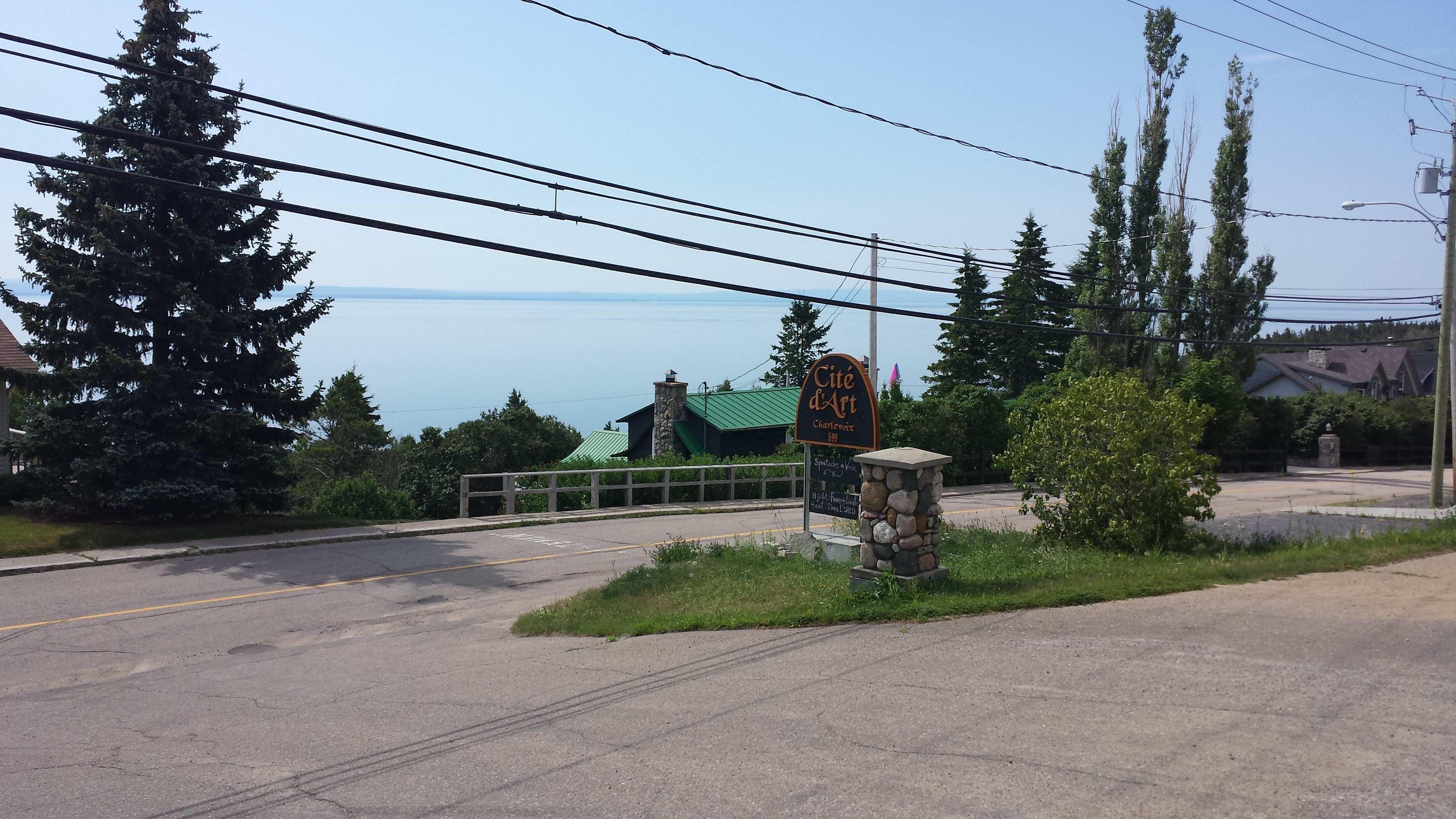 View of the eastern entrance to the village with the St. Lawrence River in the background.